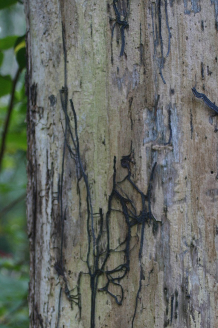 Rhizomorph made by a fungus of the genus Armillaria.